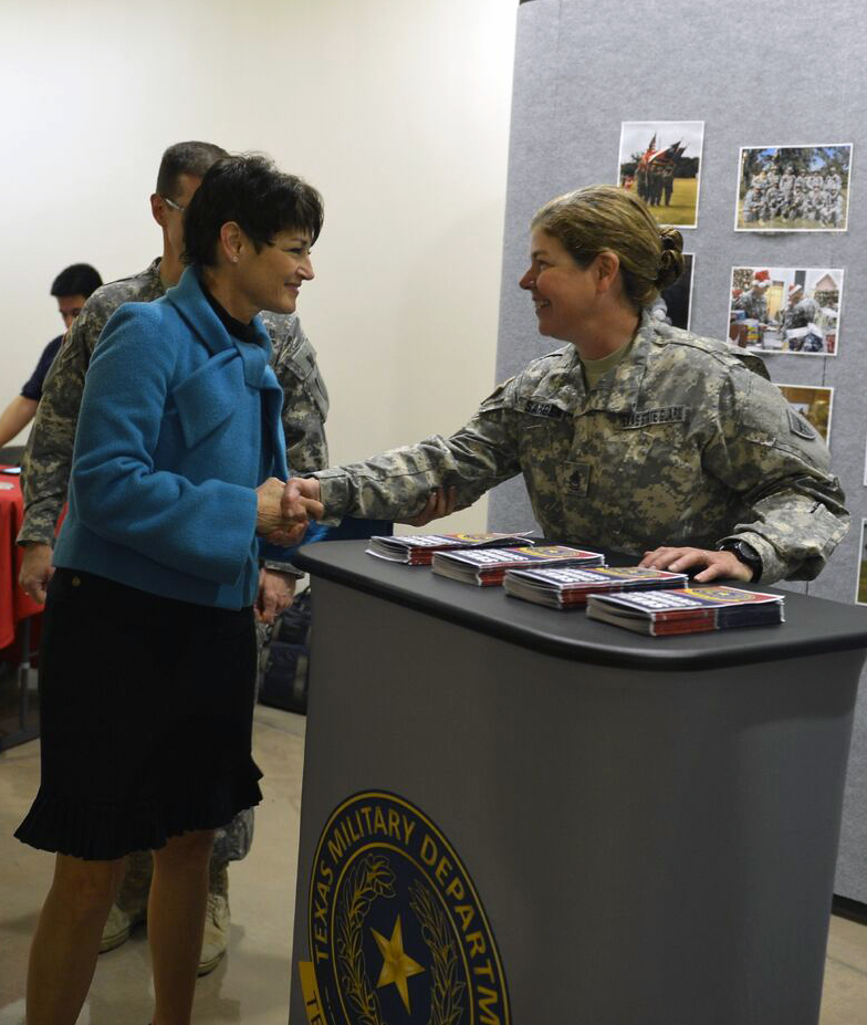 Texas Senator Donna Campbell, chairwoman for the Veterans Affairs and Border Security Committee, left, visits service members during Texas Military Department Day at the Capitol, March 8, 2017. Texas Guardsmen set up informational displays for legislatives, staff and general guest of the Captitol to talk about roles and capabilites of the Texas Military Department in Texas. (U.S. Army National Guard photo by Sgt. Elizabeth Pena)